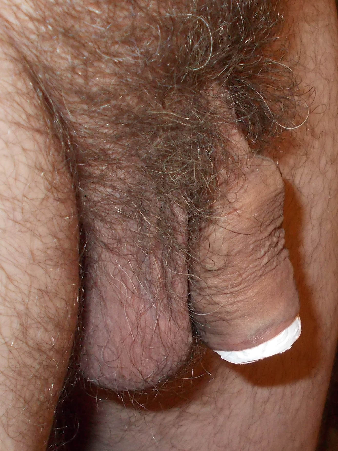 Tool for balanoposthitis and phimosis treatment